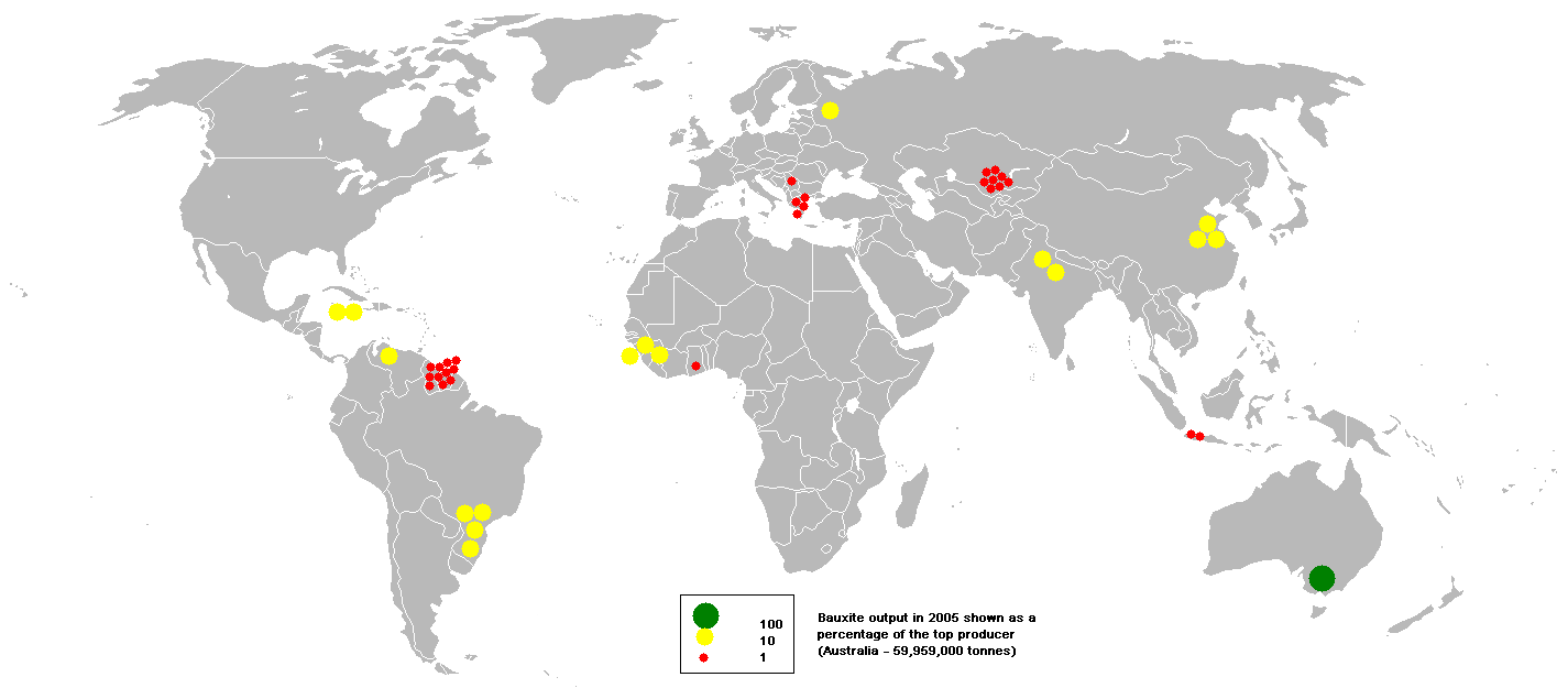 This bubble map shows the global distribution of bauxite output in 2005 as a percentage of the top producer (Australia - 59,959,000 tonnes). This map is consistent with incomplete set of data too as long as the top producer is known. It resolves the accessibility issues faced by colour-coded maps that may not be properly rendered in old computer screens. Data was extracted on 3rd June 2007. Source - British Geological Survey Based on Image:BlankMap-World.png